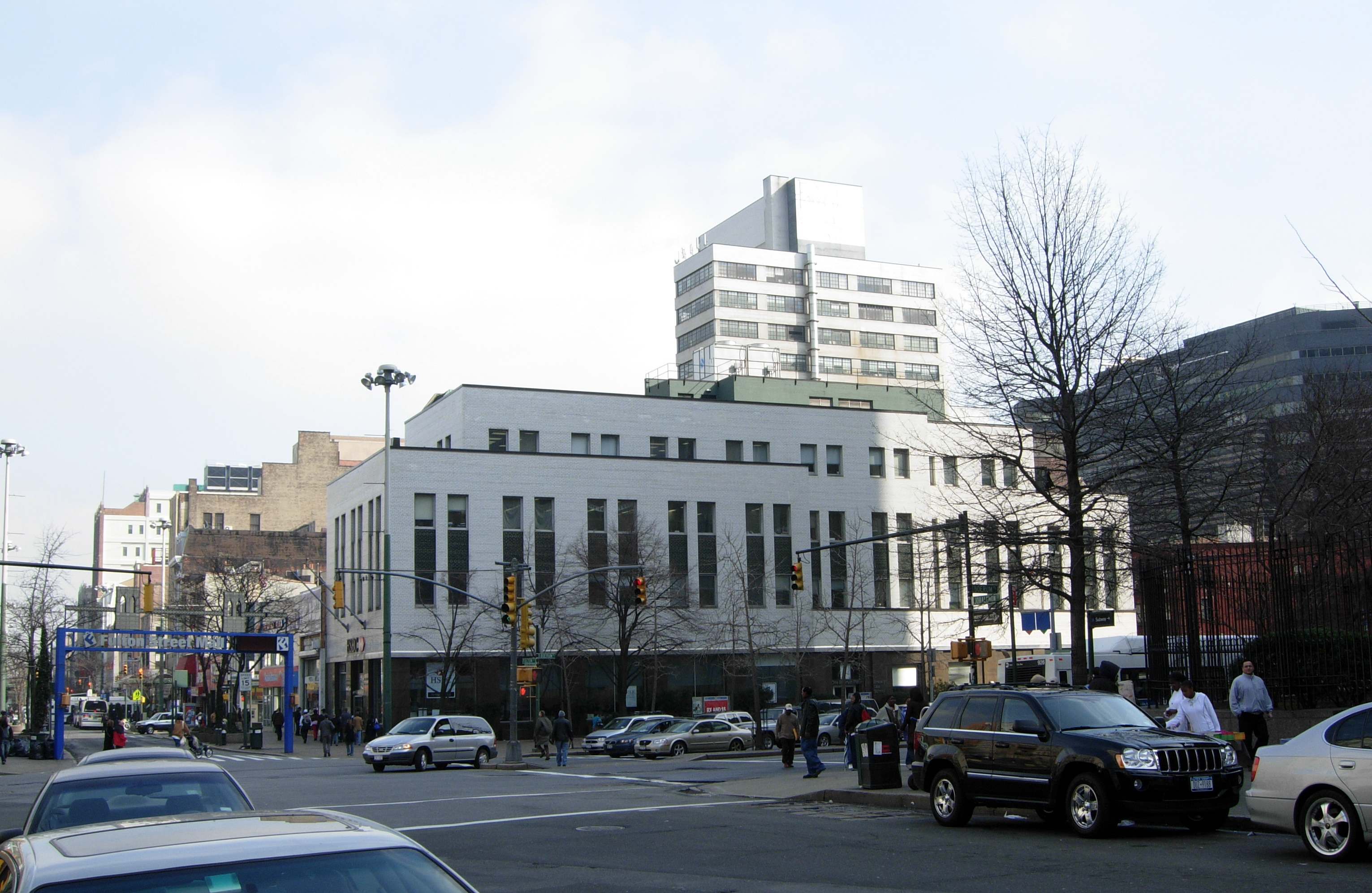 Brooklyn Law School's former administrative building, located at One Boerum Place, Brooklyn New York. The site was sold to Avery Hall Investments for $76.5 million in 2016.